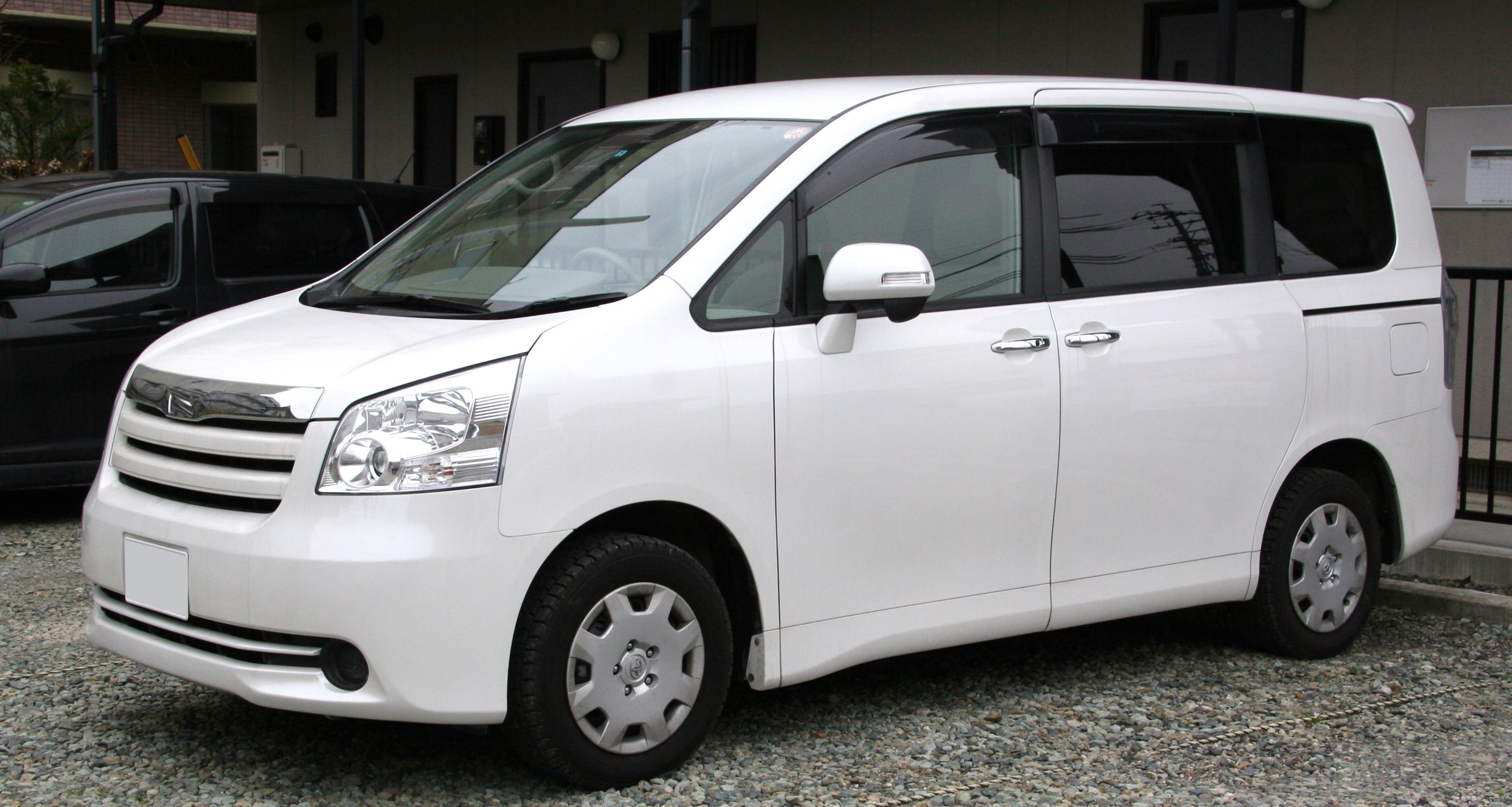 Toyota Noah